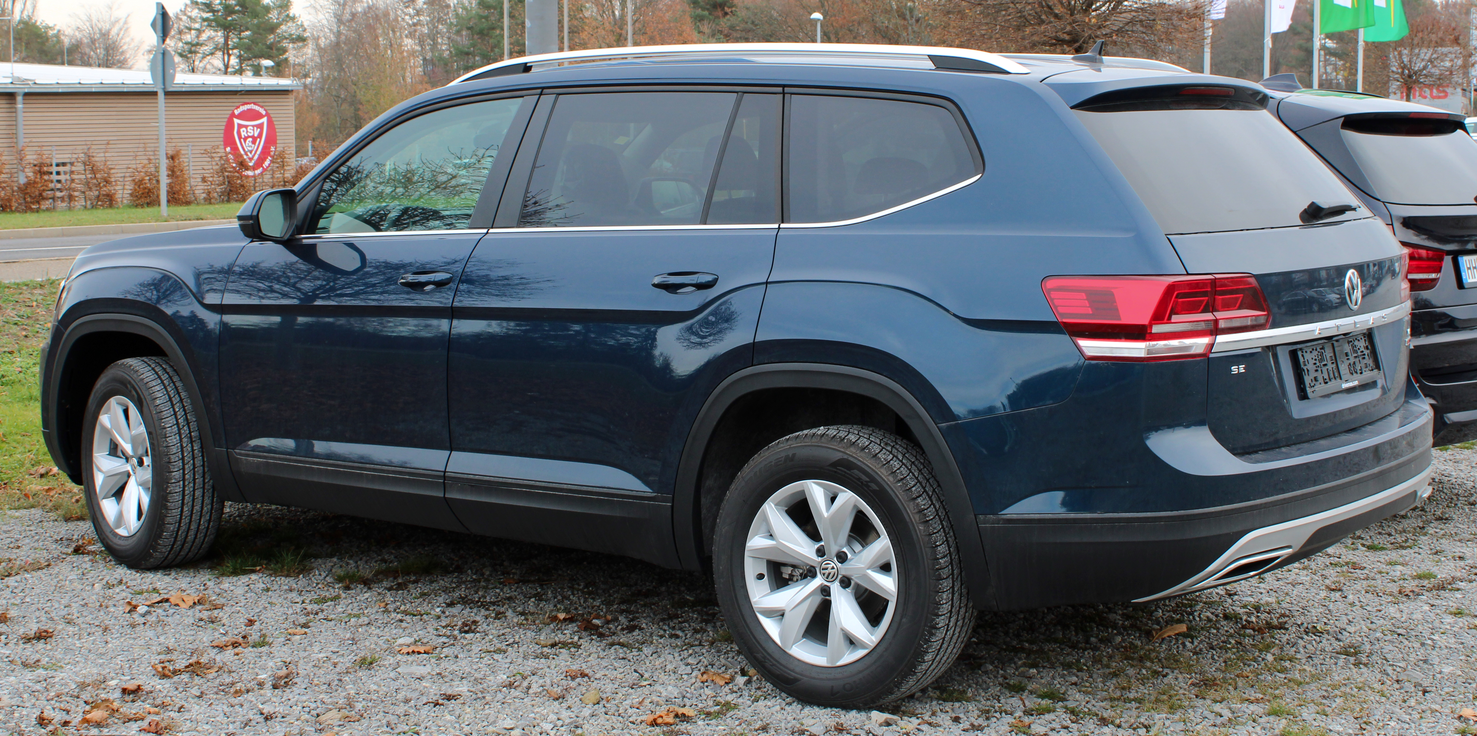 Volkswagen Atlas SE in Stuttgart-Vaihingen